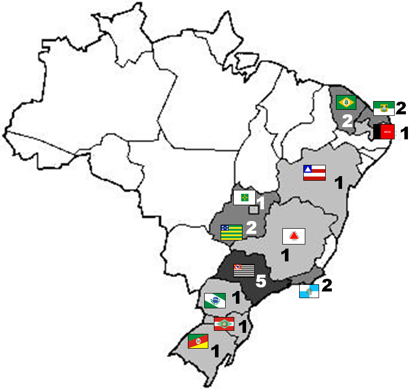 Map showing the states who have teams in Campeonato Brasileiro Série B 2009